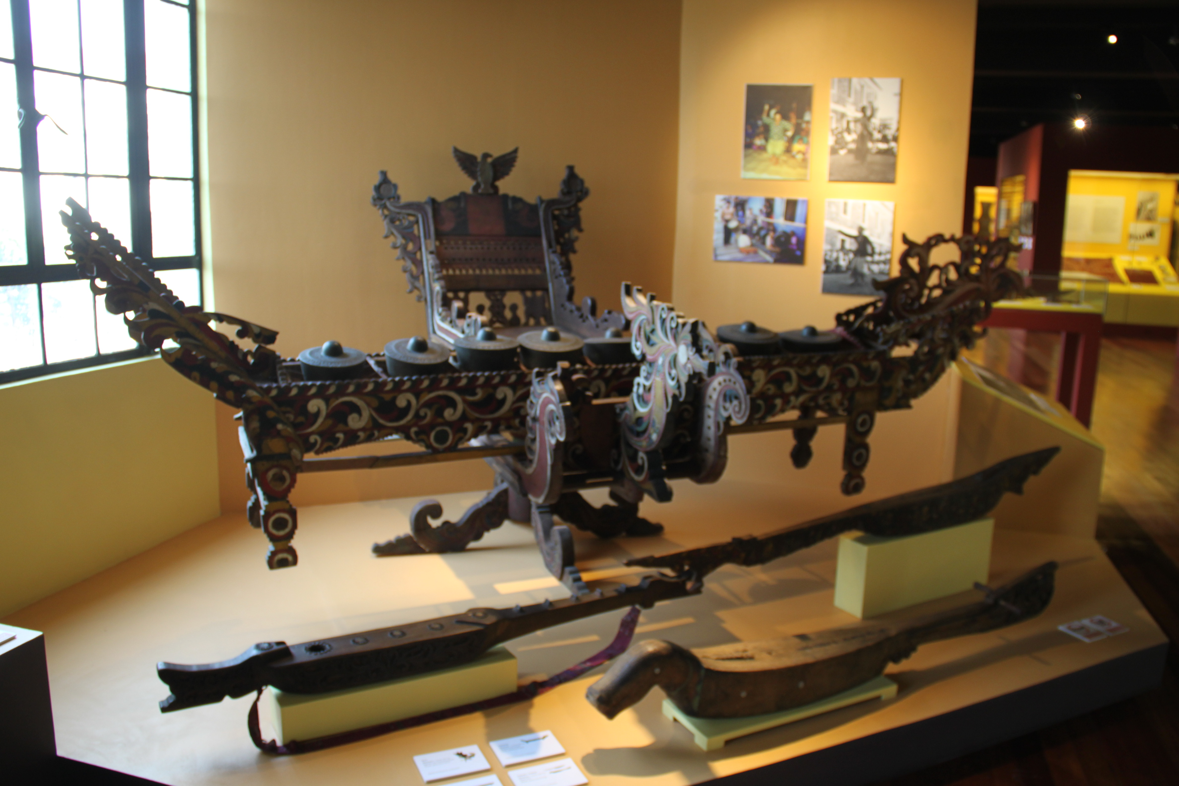 Bangsamoro and Lumad Cultures Gallery, Museum of the Filipino People, Rizal Park, Manila, Philippines. Complete indexed photo collection at .